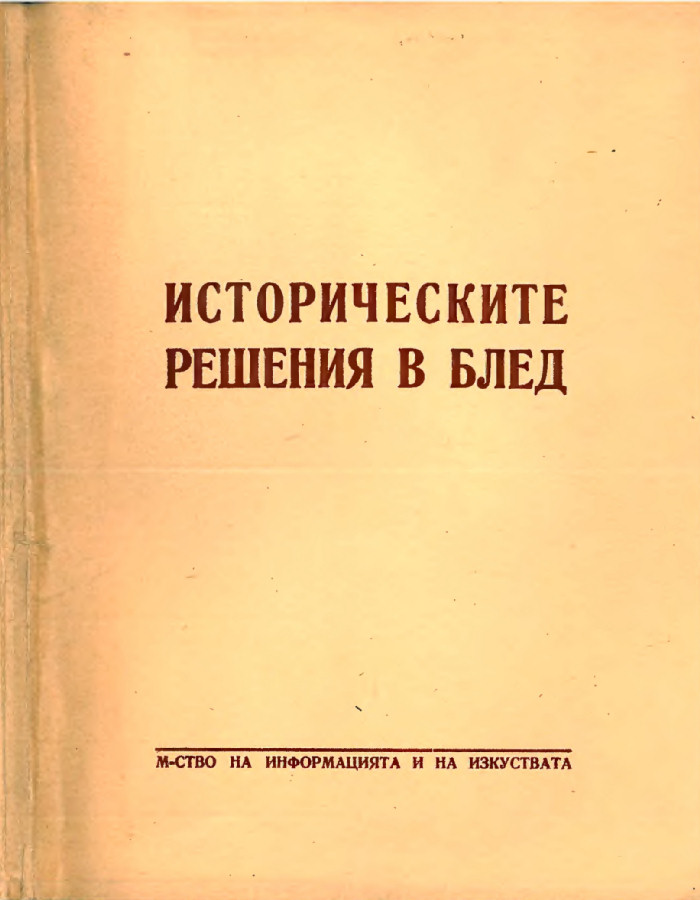 Istoricheskite Reshenia v Bled